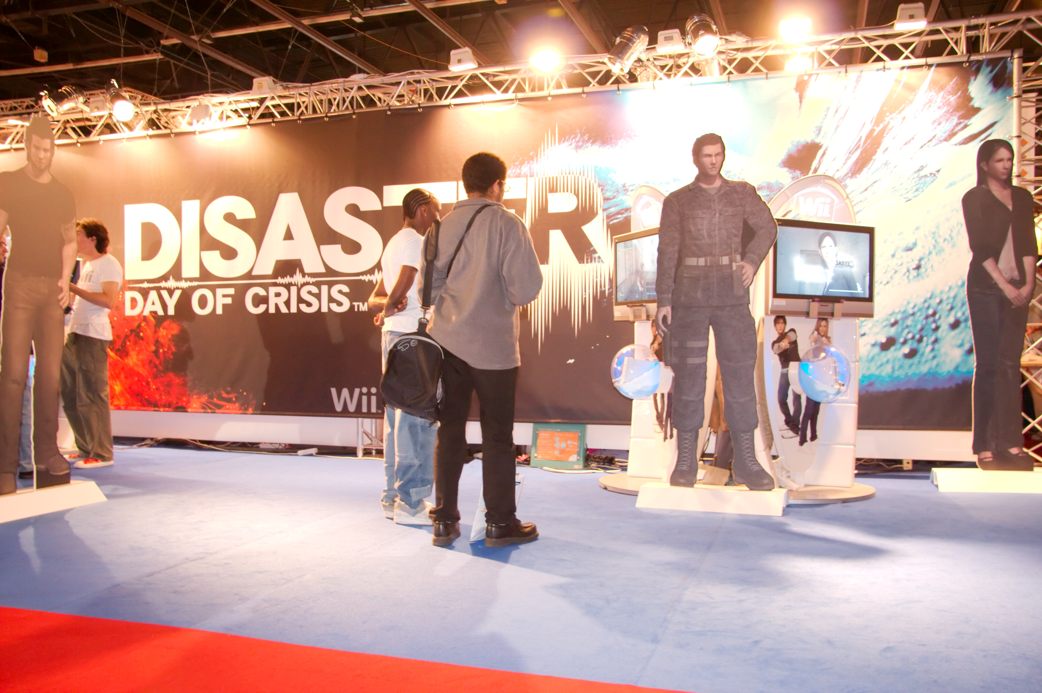 Disaster: Day of Crisis. Festival du jeu vidéo 2008 (video game festival) (Paris, France).